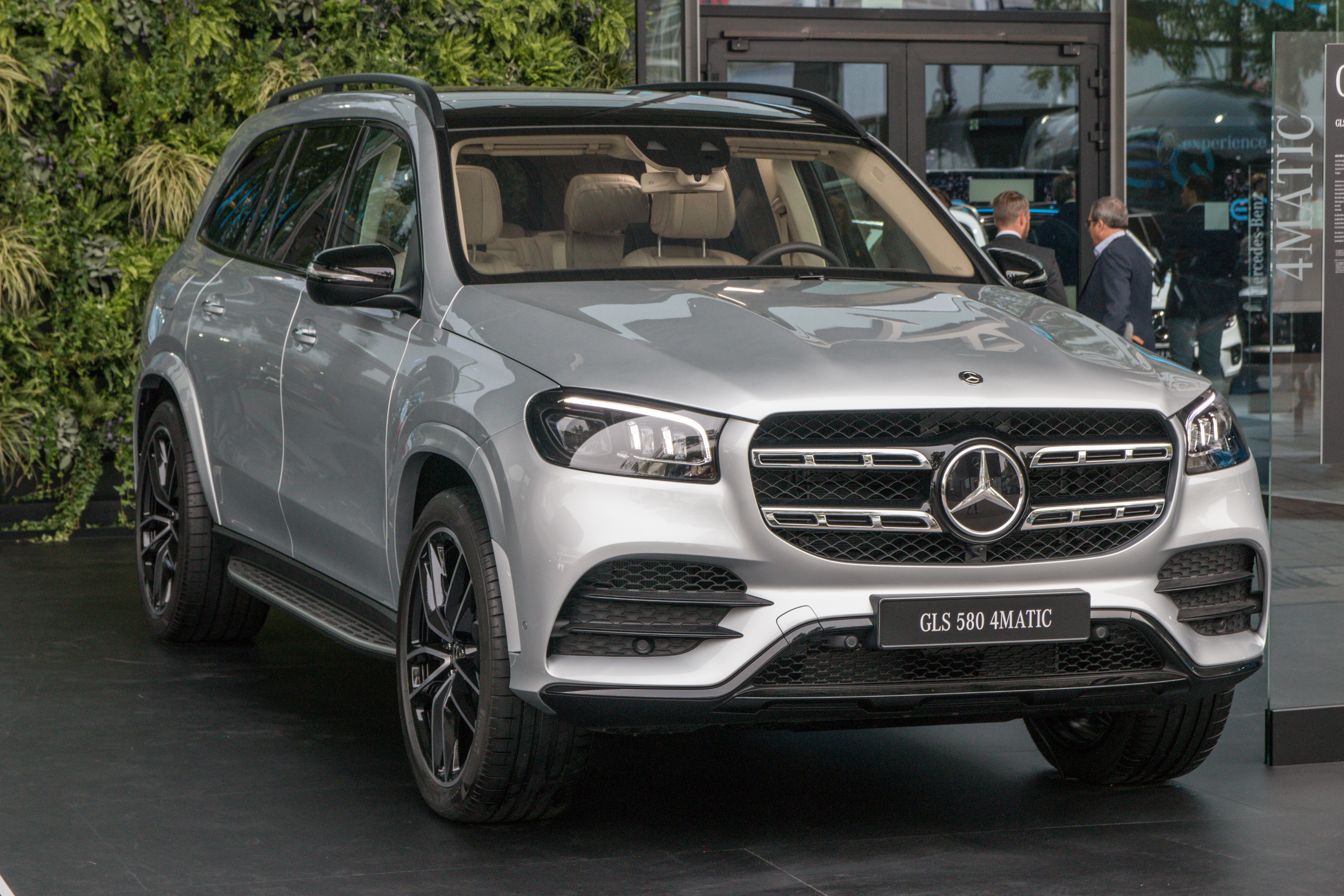 Mercedes-Benz X 167 GLS580